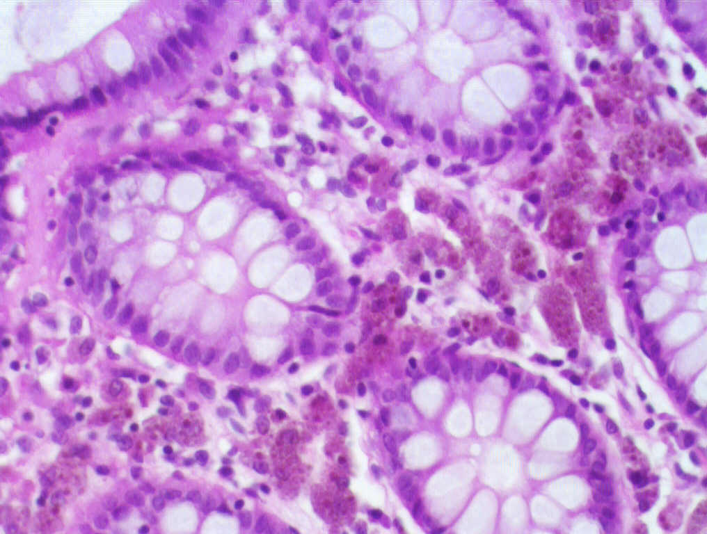 Colon, surgical specimen. Tonaca propria contains numerous macrophages with brown pigment into the cytoplasm.H&E 200x